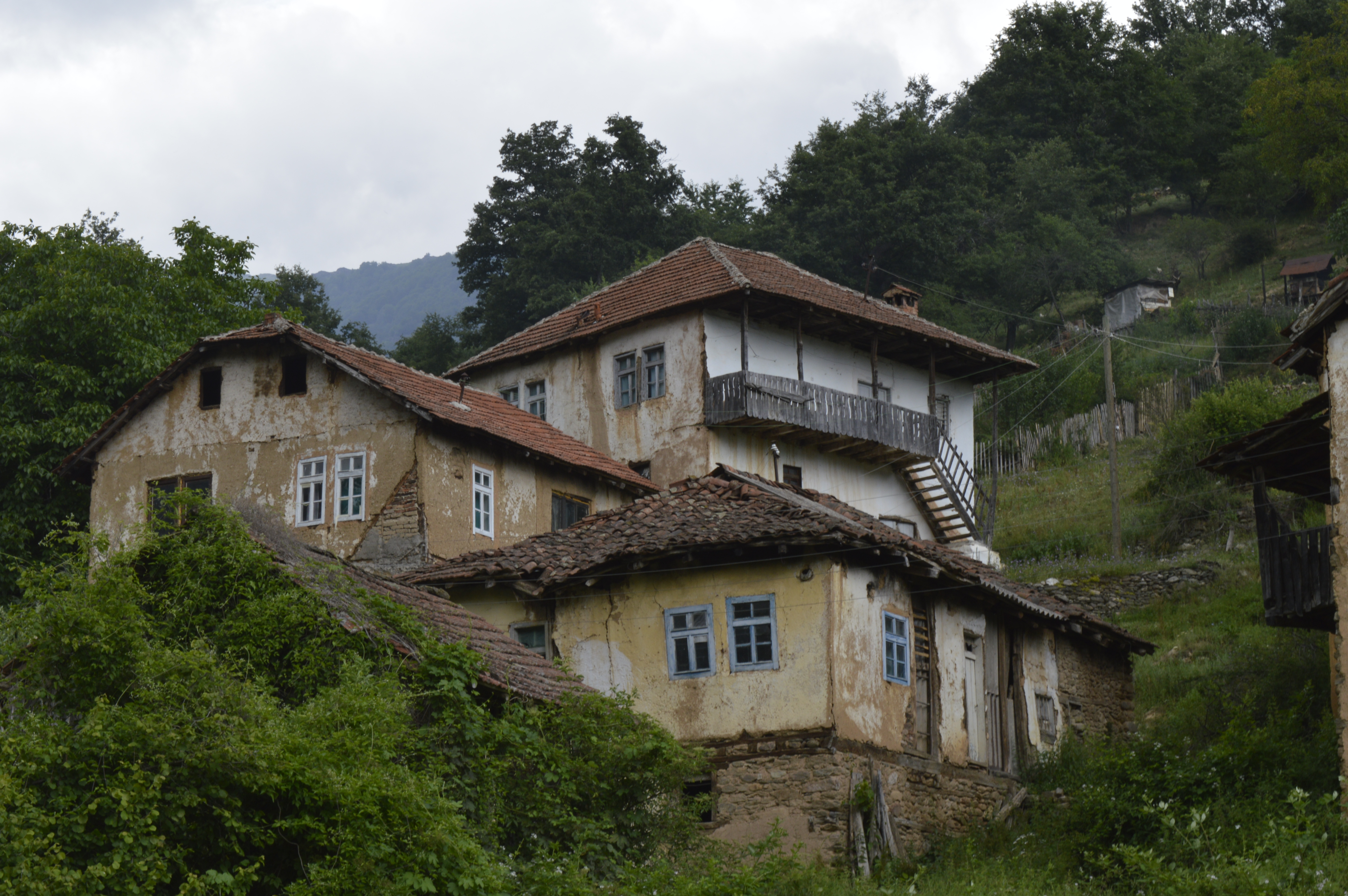 Old houses in the village Oreše